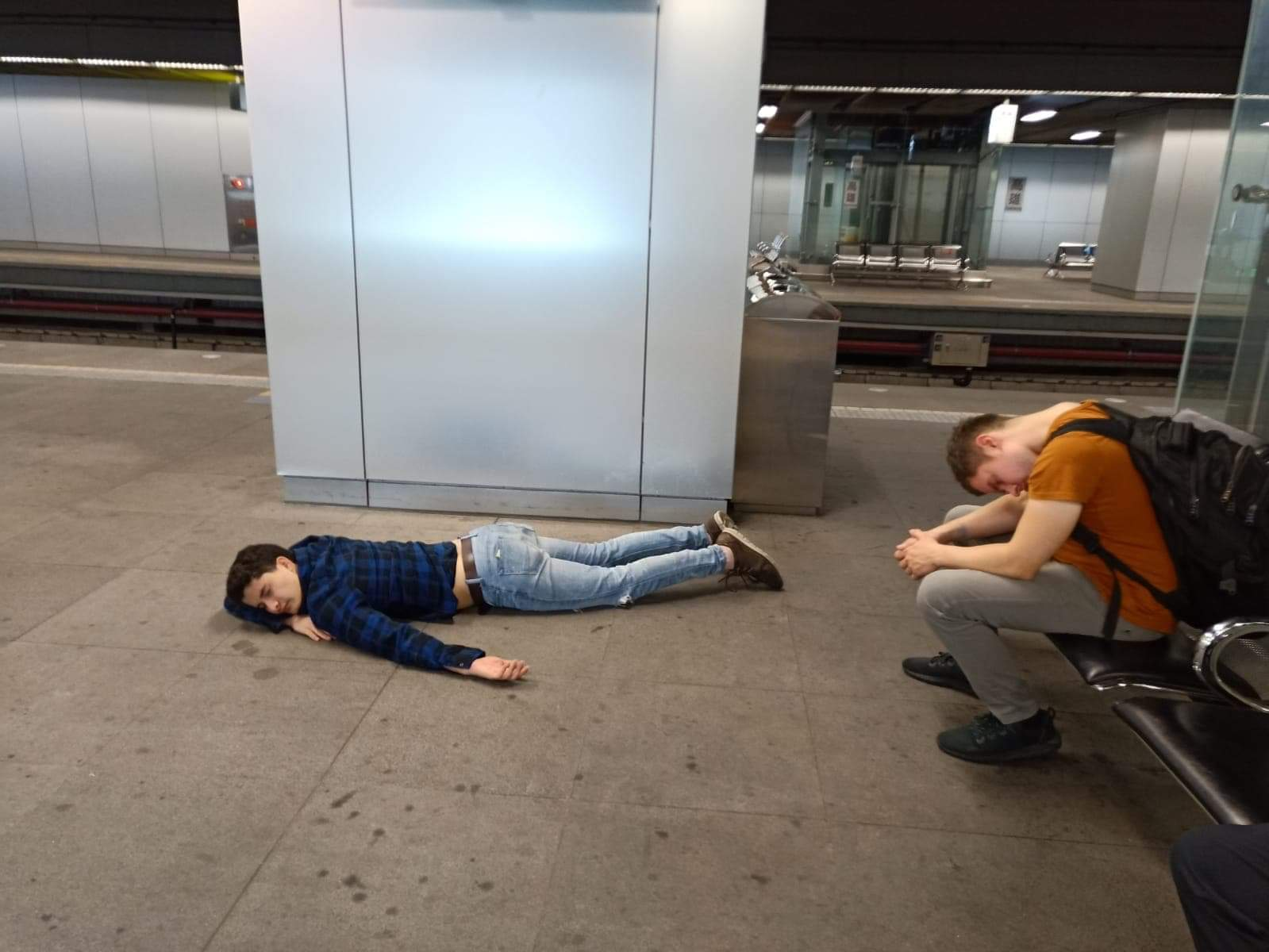 Drunk foreigners like to party till sunrise in other cities, they go back home completely drunk.